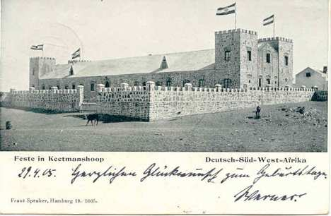 Keetmanshoop "29.4.05" on Vintage Picture Postcard "Feste in Keetmanshoop" to Neisse, with arrival cancel. Scarce postcard